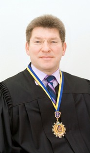 Glyhanchyk